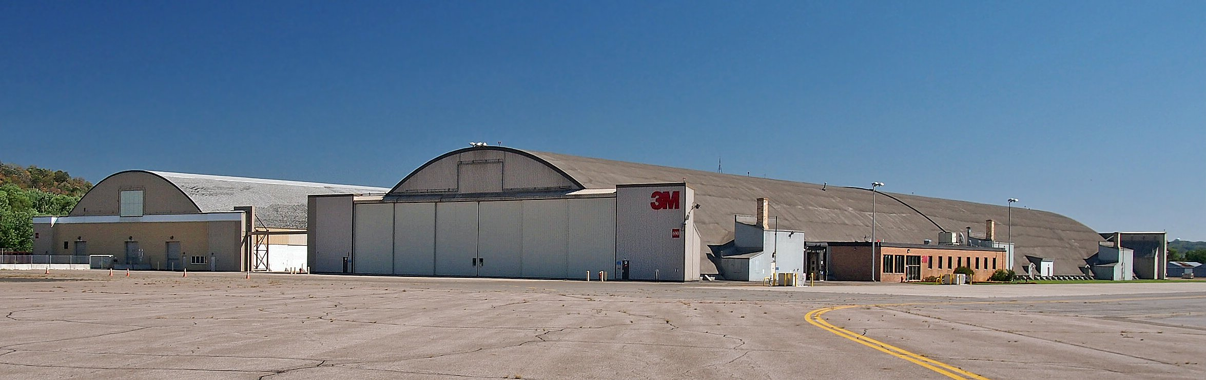 Riverside Hangers, 690 Bayfield St, St Paul Downtown Airport, St Paul, Minnesota, USA. Viewed from the west.